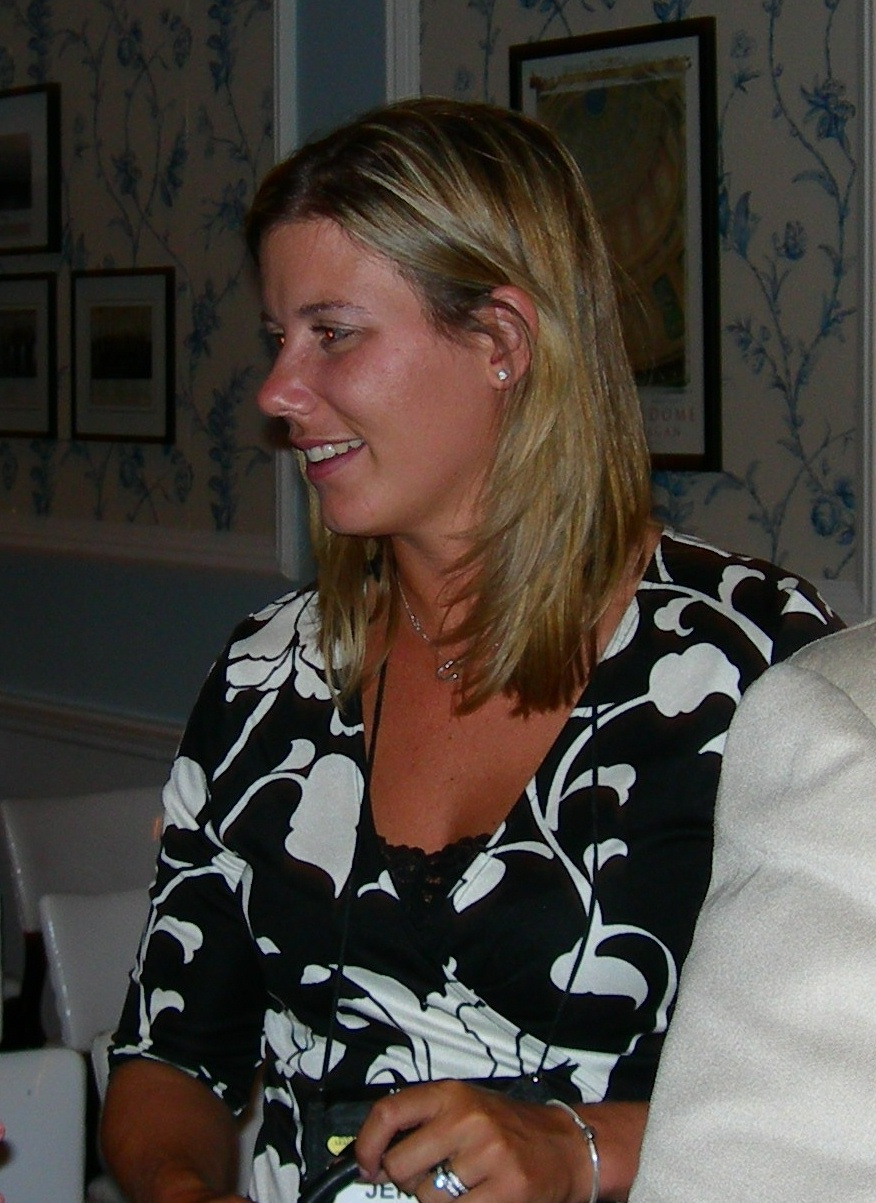 Jennifer Gratz (MCRI's executive director). Picture taken at the 2007 Mackinac Republican Leadership Conference (September 22)